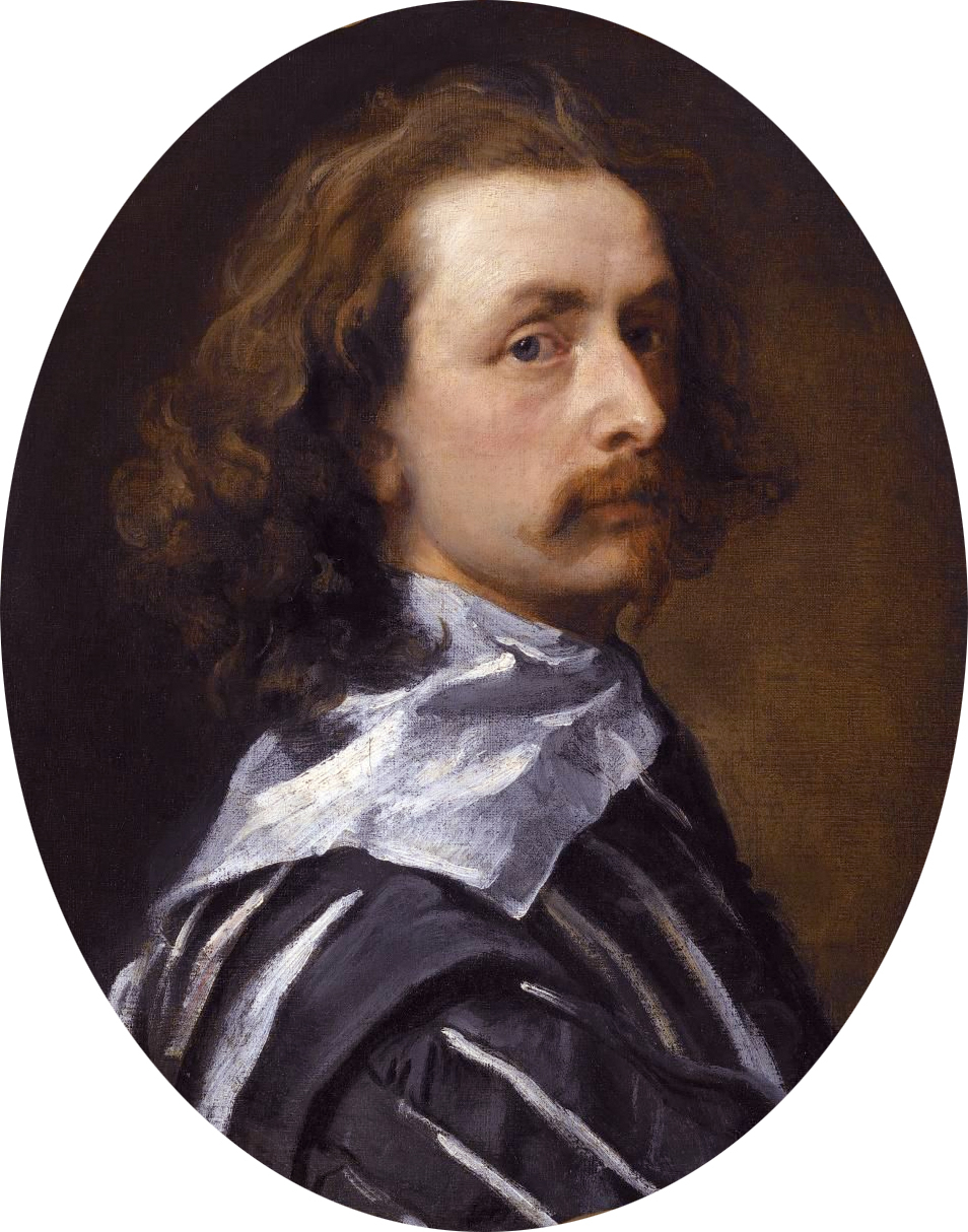 Self-portrait of Sir Anthony van Dyck.